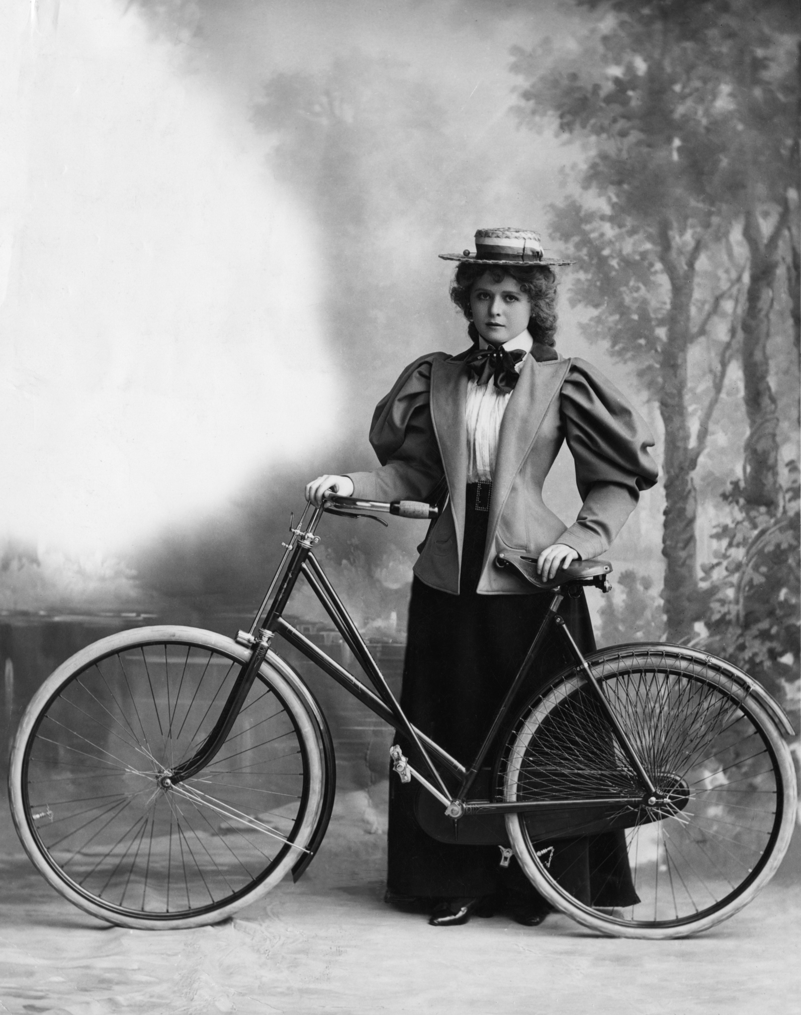 Mabel Love with a bicycle